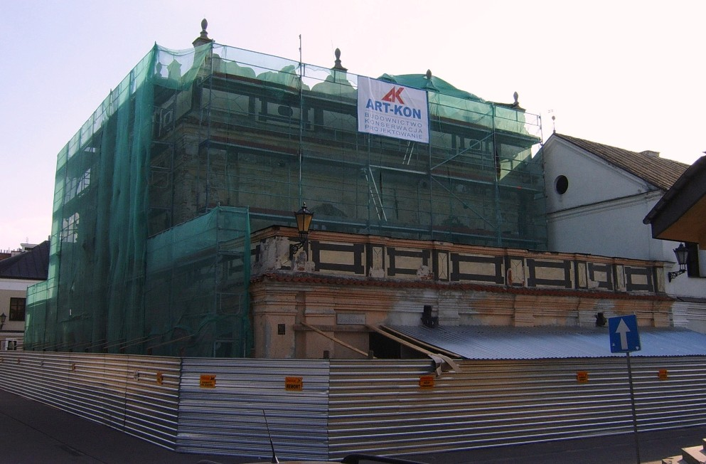 Repairs of synagogue in Zamość